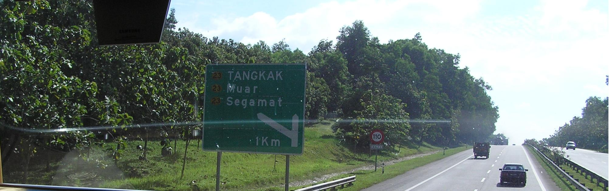 Tangkak turnoff